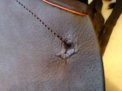 Corrosion of saddle leather at nail holes